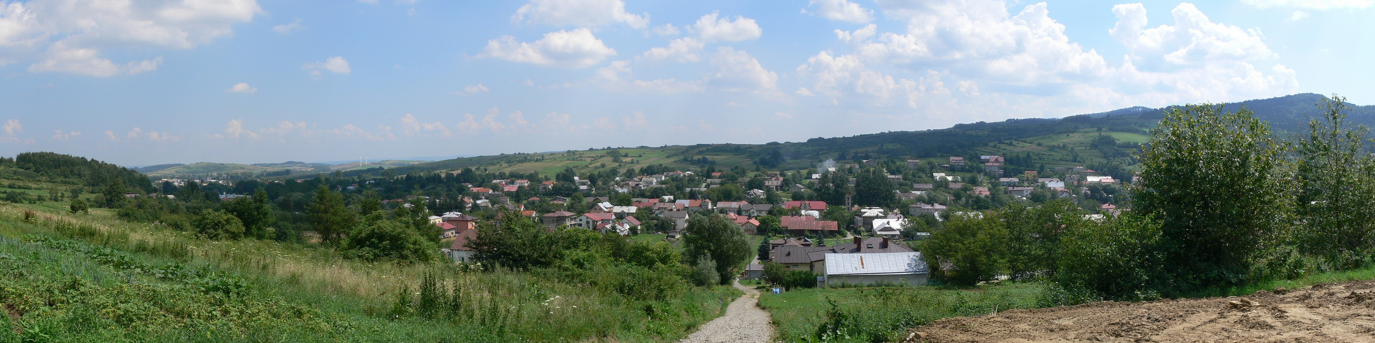 Posada Górna, community Rymanów, Poland